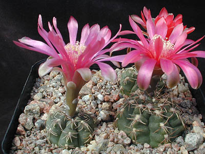 Gymnocalycium baldianum